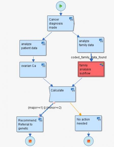 example of a flowchart process model